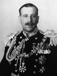 Viscount Galway, GCMG, DSO, OBE, PC Viscount Galway, GCMG, DSO, OBE, PC Governor-General of New Zealand 1935 - 1941